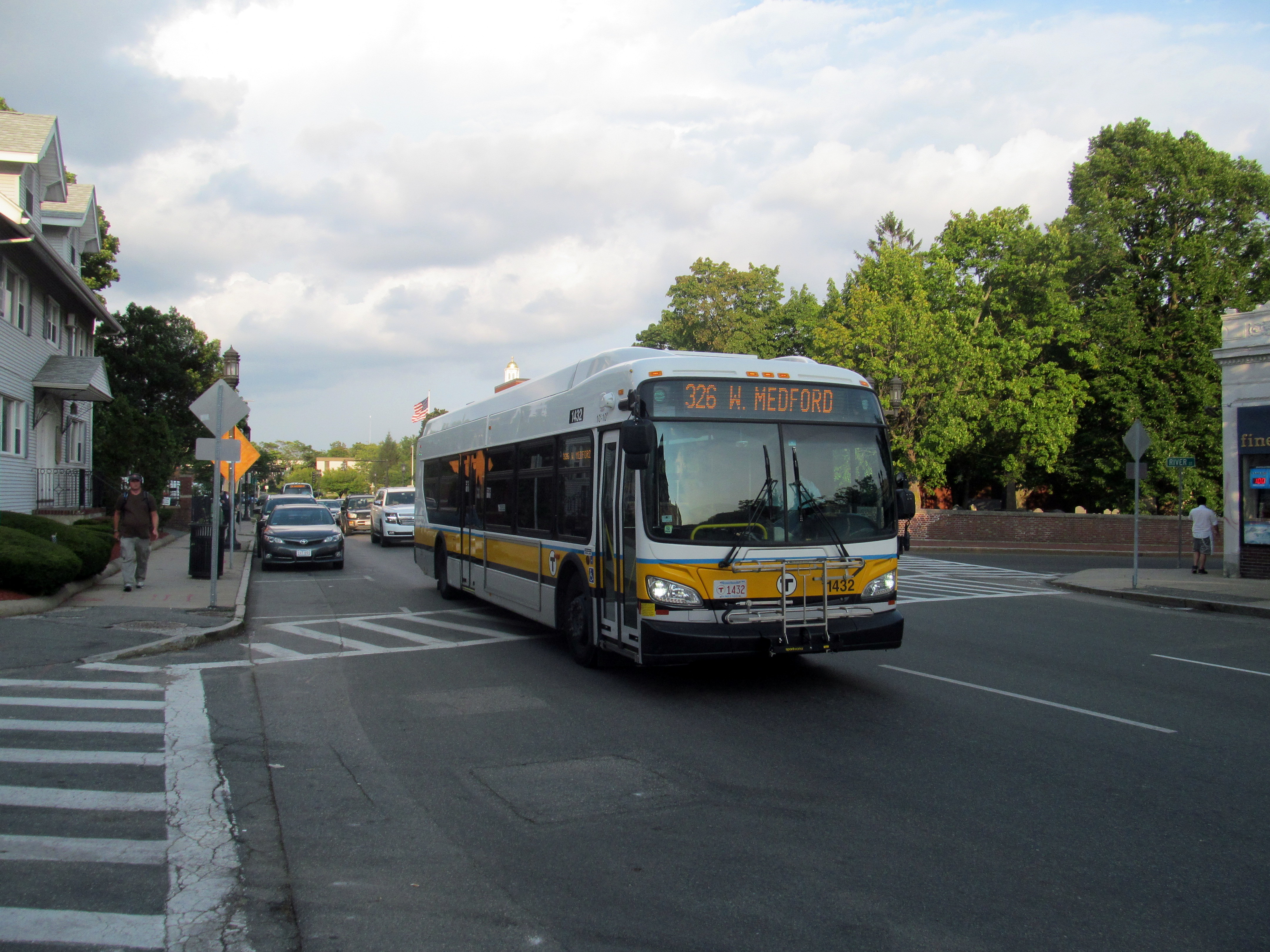 An outbound MBTA #326 bus on Salem Street at Medford Square in July 2015